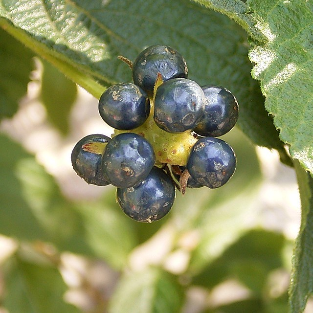 Lantana camara leaf, flower and fruit